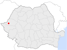 Location of Arad in Romania.